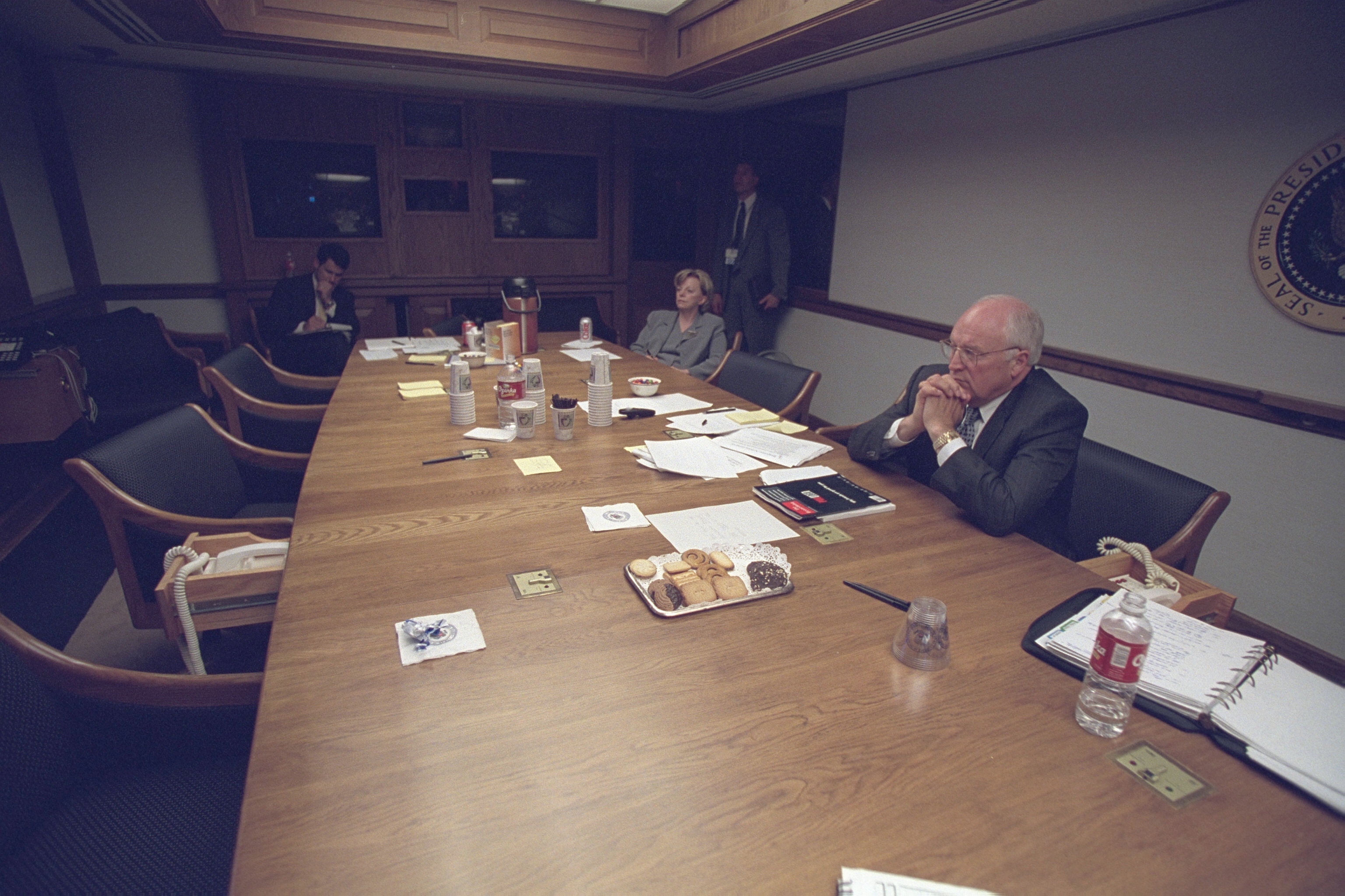 These images have been released in response to a FOIA request, case number 2014-0012-F, received by the National Archives. For more information on these images, please visitResearching Vice Presidential Materials. These photos will be available in the National Archives Catalog in July 2015. Local Identifier: V1558-11 Created By: President (2001-2009 : Bush). Office of Management and Administration. Office of White House Management. Photography Office. 1/20/2001-1/20/2009 From: Collection: Vice Presidential Records of the Photography Office (George W. Bush Administration), 1/20/2001 - 1/20/2009 Contact: Presidential Materials Division (LM) National Archives Building 7th and Pennsylvania Avenue NW Washington, DC 20408 Phone: 202-357-5200 Fax: 202-357-5939 Production Dates: 9/11/2001 Persistent URL: Access Restrictions: Unrestricted Use Restrictions: Unrestricted